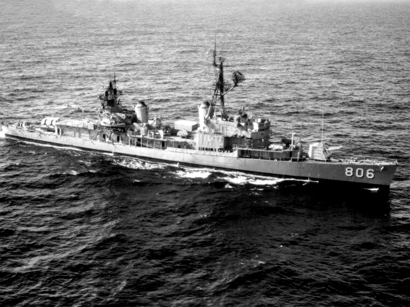 The U.S. Navy destroyer USS Higbee (DD-806) underway in the Pacific Ocean on 2 May 1970.